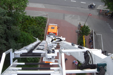 View downwards from Elmshorn Fire Department Skycrane